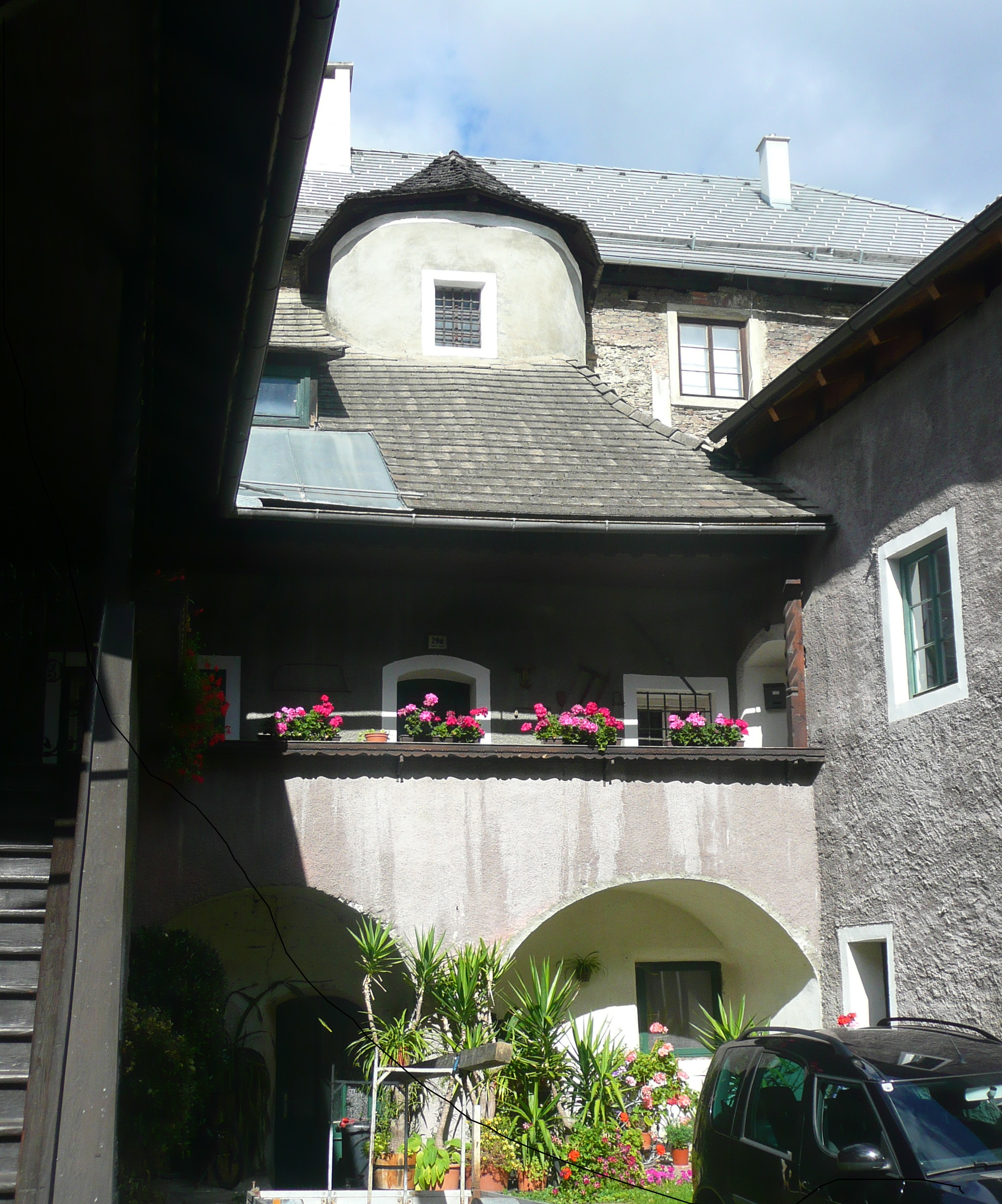 Today privately owned this building was used as prison of the regional court Gmünd and as logding place of the bailiff. Before imprisoned persons were put into the tower of the old castle. With this building a more human form of imprisonment was possible.